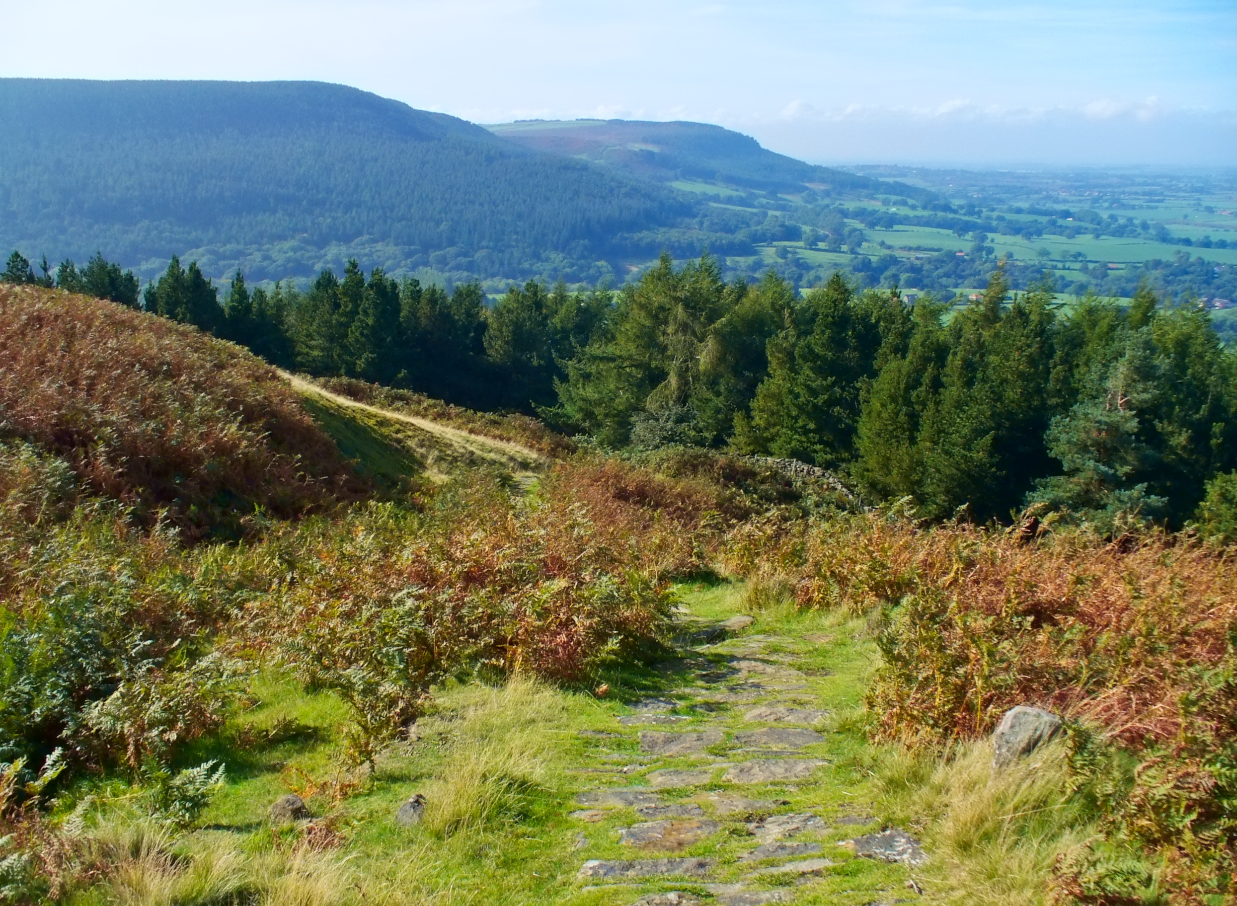 View west from the Cleveland Way at Live Moor (near Heathwaite, North Yorkshire, England).